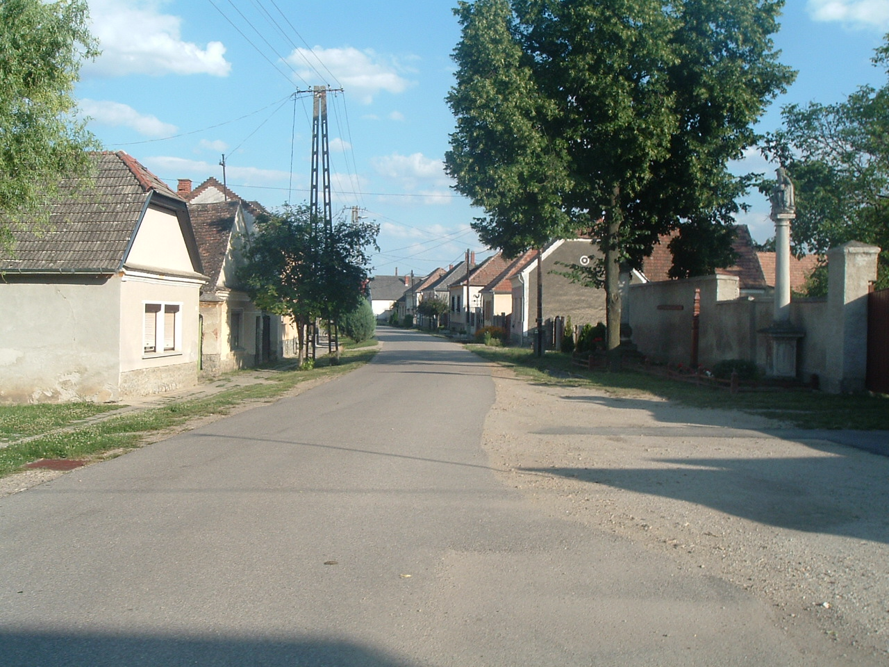 Répcevis, Hungary